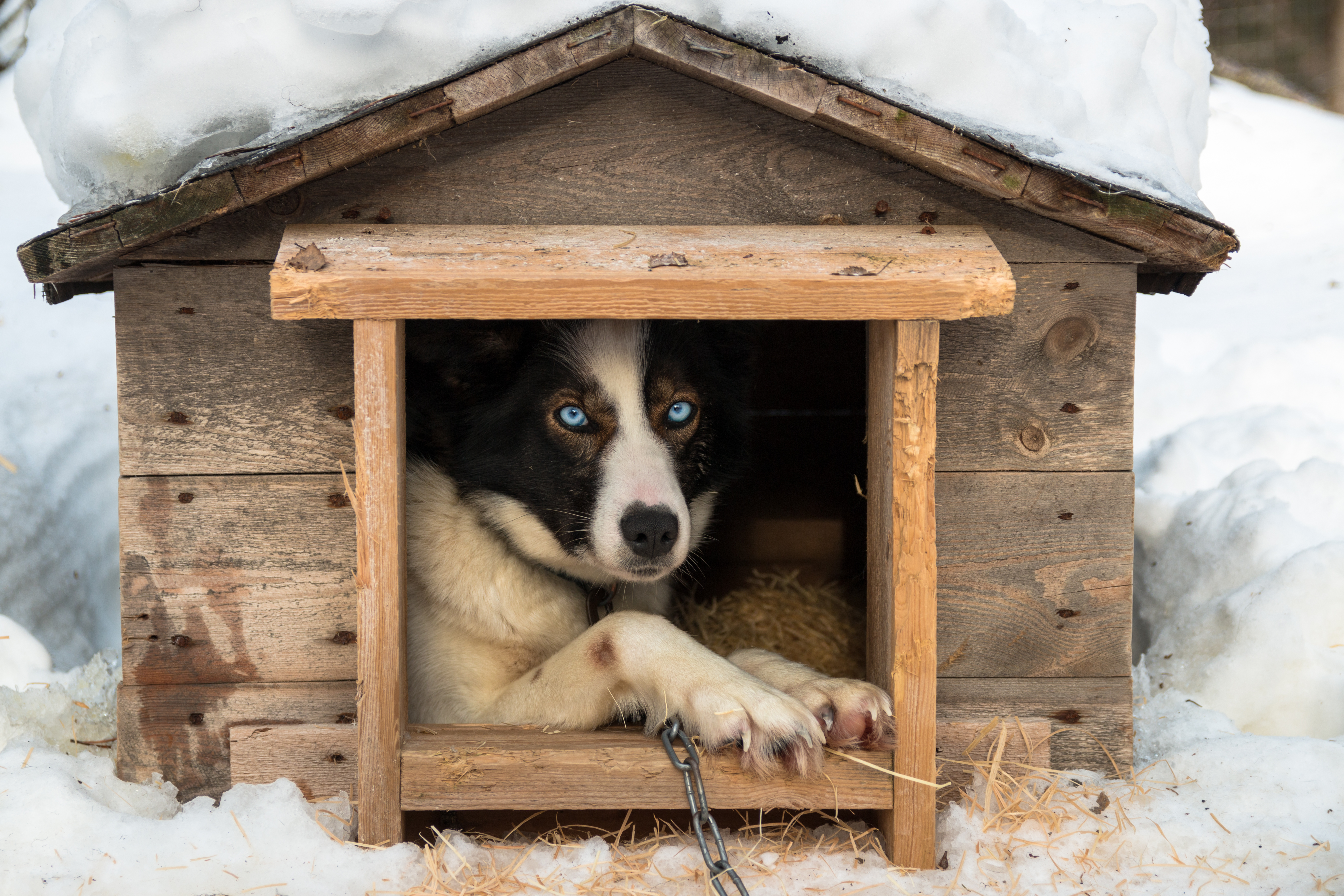 Cindy